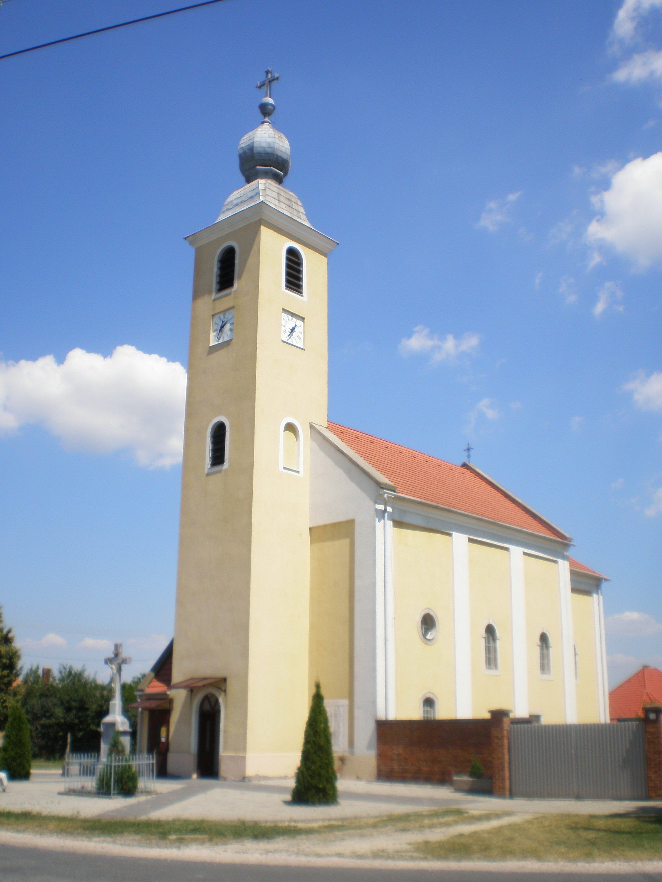 Catholic Church